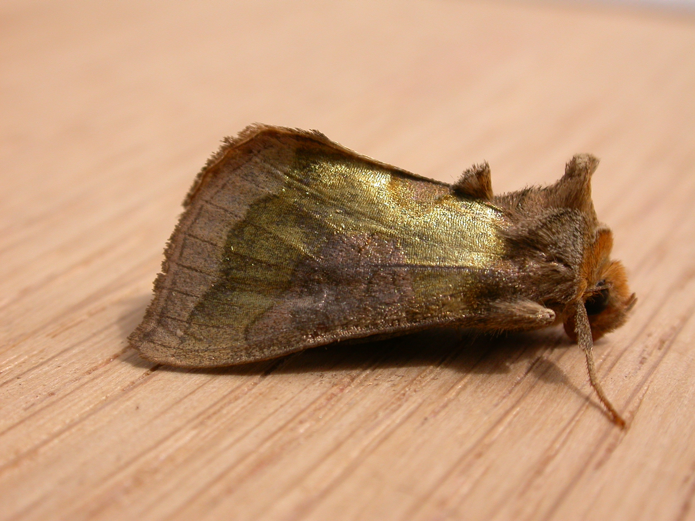 Diachrysia stenochrysis (Warren, 1913), to Robinson trap, Hellerup, Denmark, 14/15 July 2012 See here for some discussion of Danish Diachrysia species.